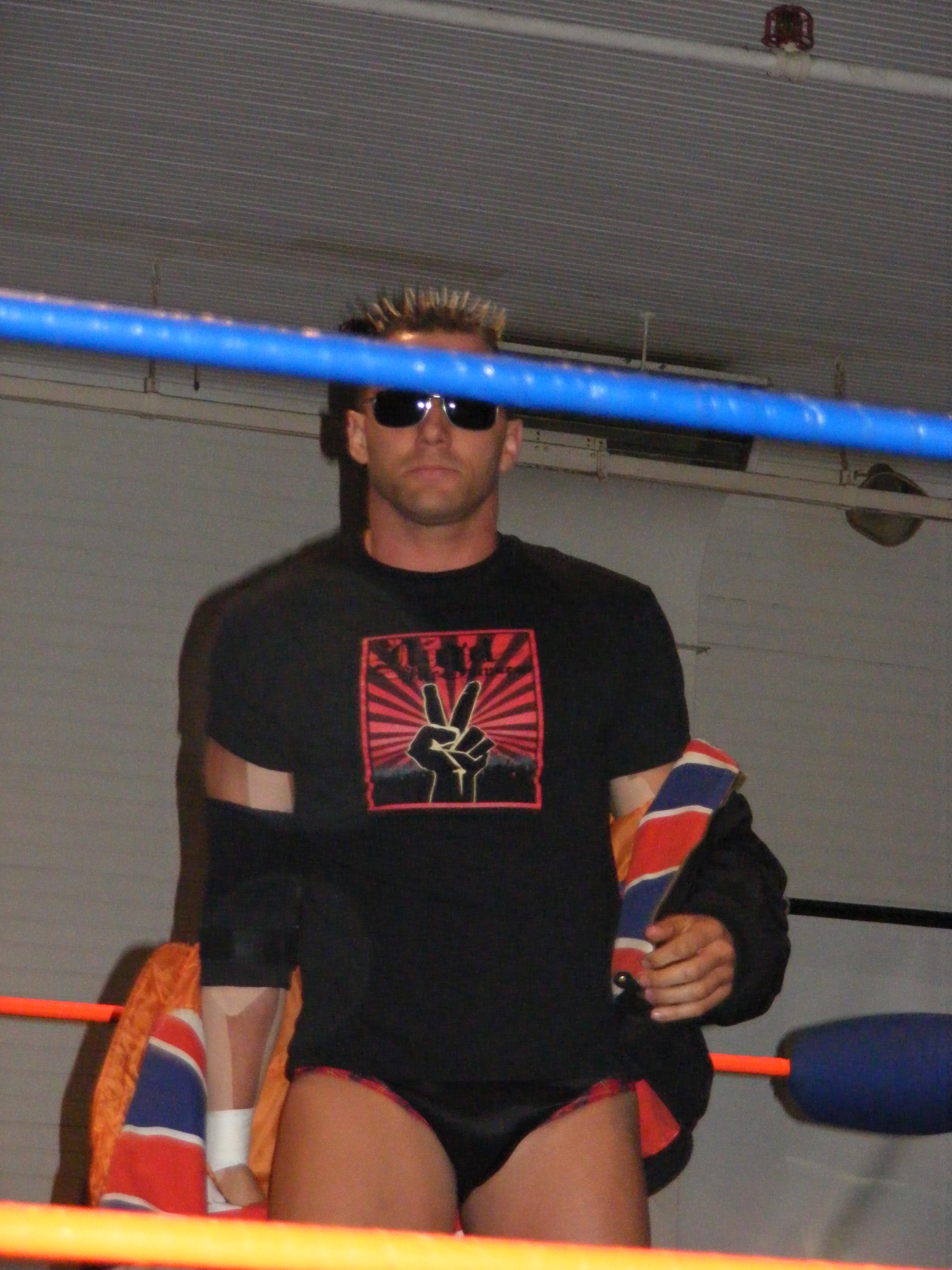 Professional wrestler Nigel McGuinness at a 2CW show on April 11, 2009